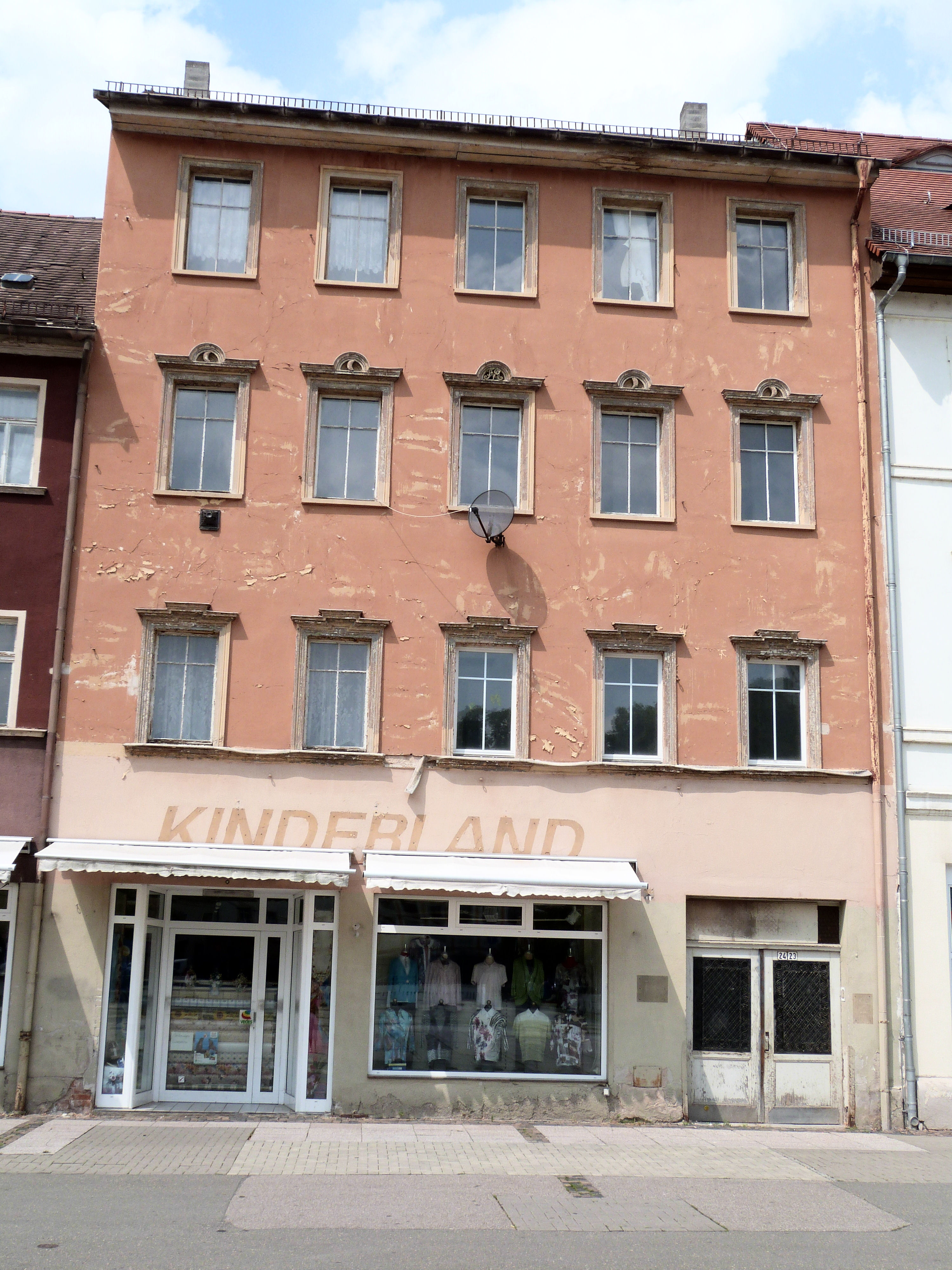 House No. 23/24, market square in Weissenfels, Saxony-Anhalt